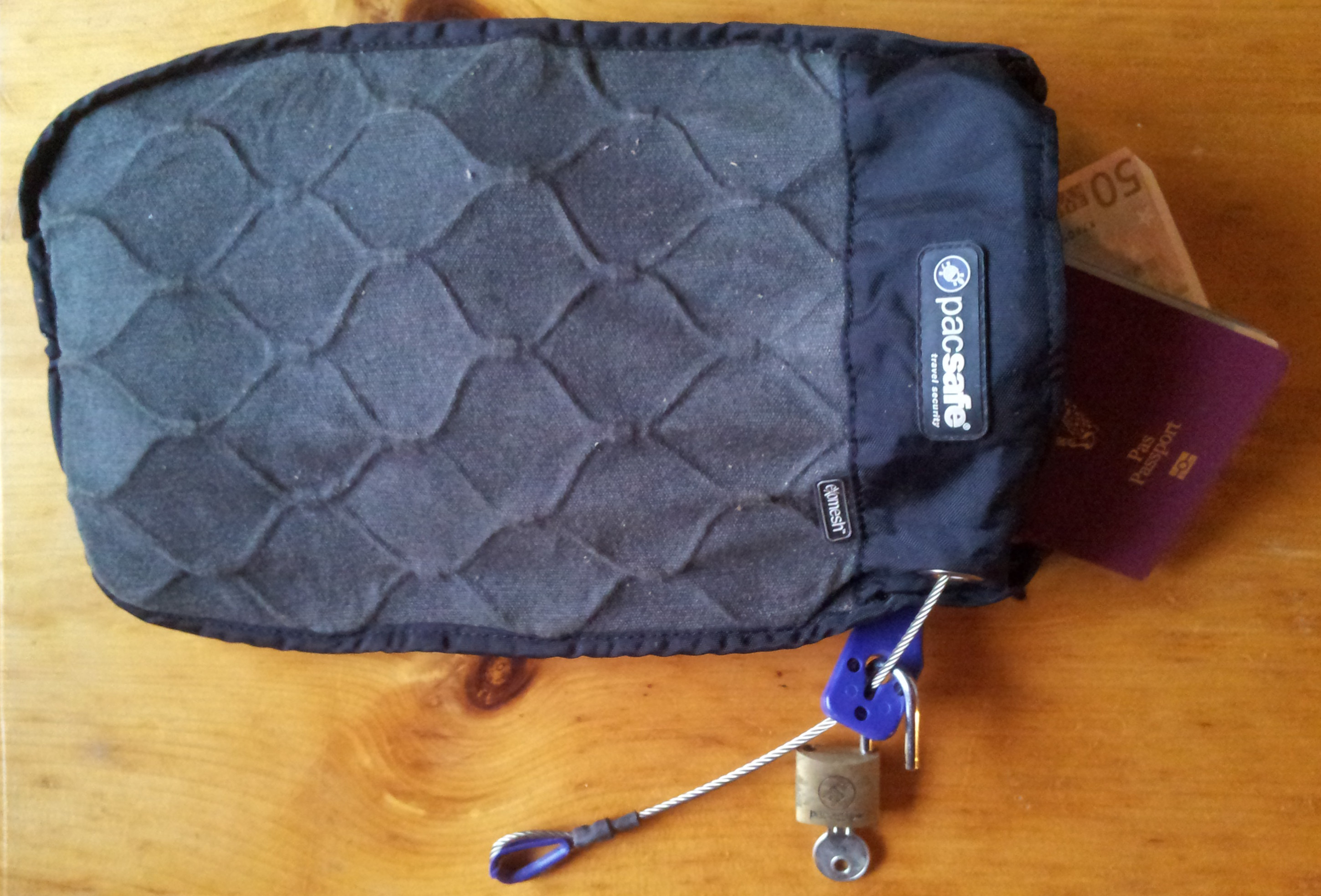 A Pacsafe travel pouch